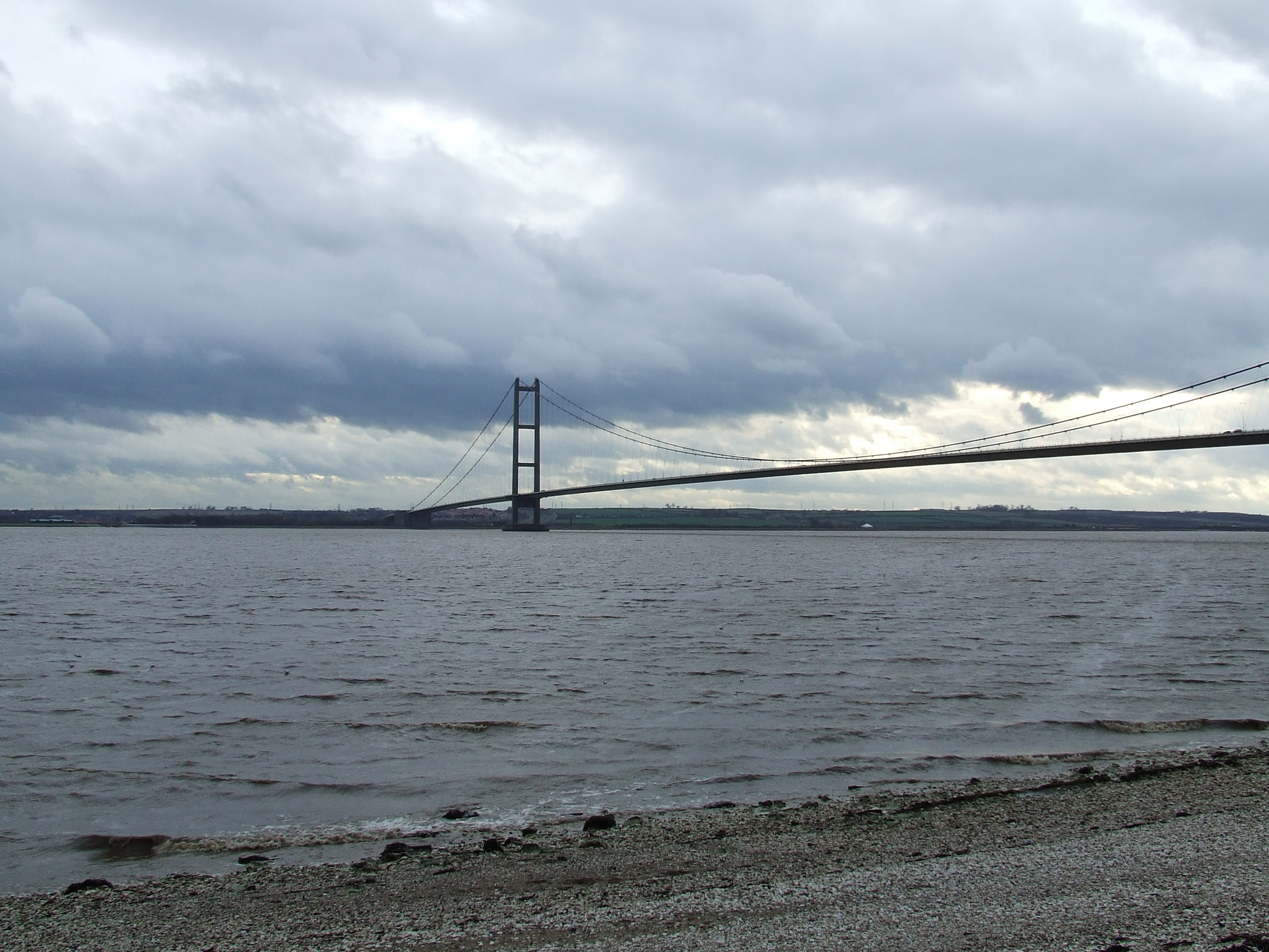 Humber Bridge, from North Bank (Hessle Foreshore), Hessle, East Riding of Yorkshire, England. A shot of the Humber Bridge on a typically cold and windy Yorkshire day, taken from Hessle foreshore (North bank).